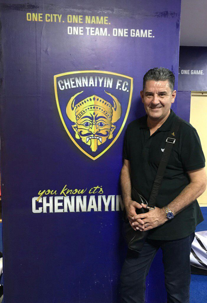 cfc coach 2